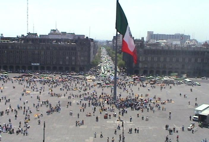 Plaza de la Constitución − Zócolo — in the Historical Center of Mexico City. Credits Brent Baccala April 1, 2005